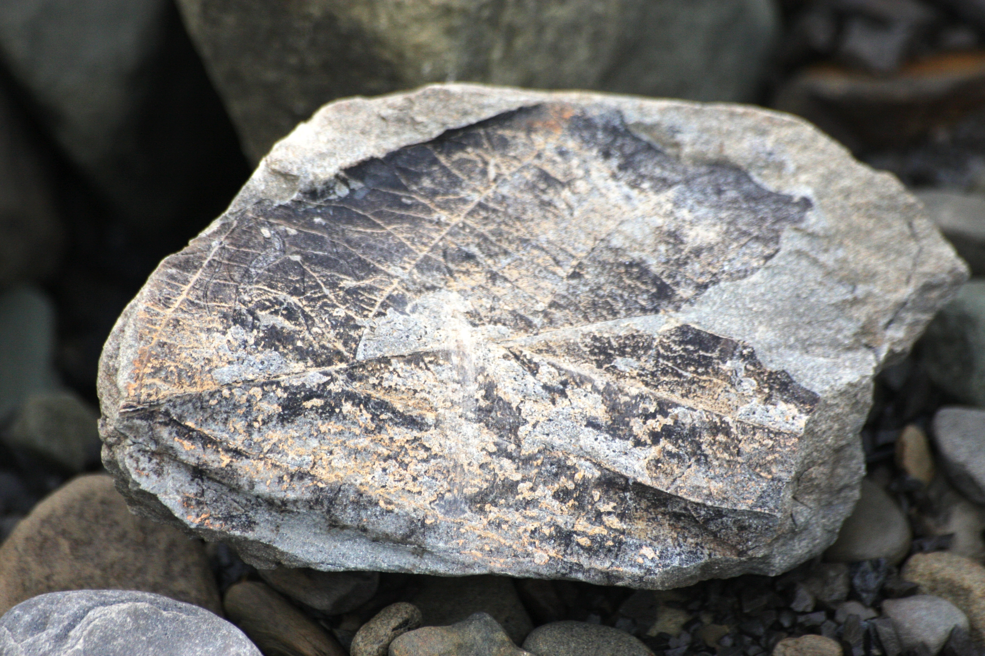 Jurassic-Terteraneous fossil, Longyearbyen, Svalbard